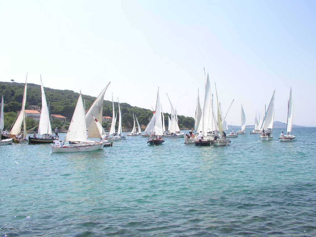 Regatta near the island Zlarin in Croatia